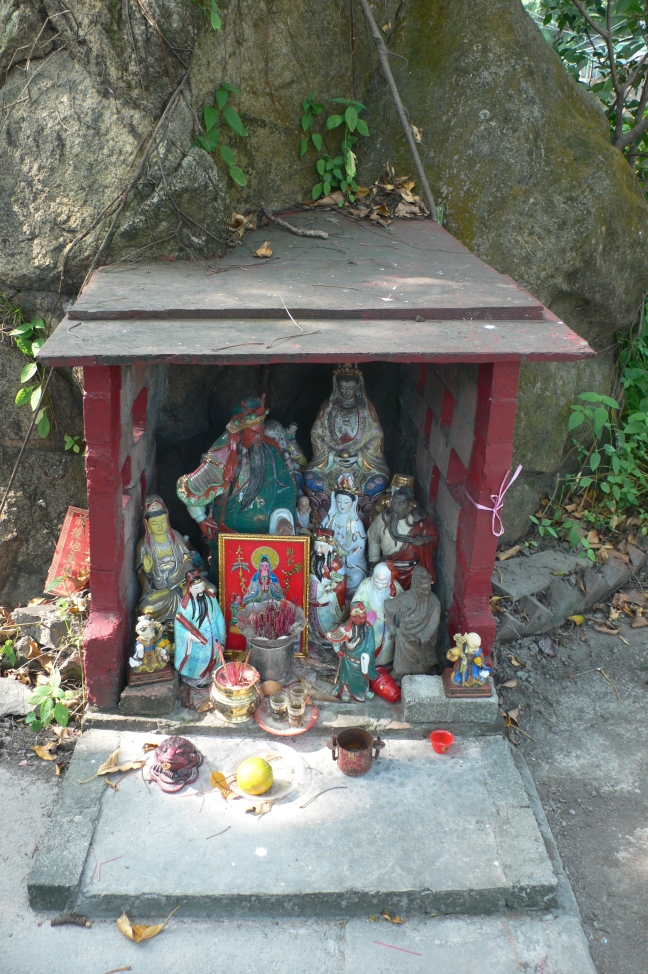 A crowded place for gods under the Testicles Rocks in Cha Kwo Ling, Hong Kong